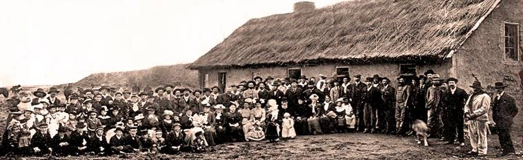 30th April 1902 plebiscite, held at the National School No. 18 Corintos River (valley October 16, current area of Trevelin), Chubut, Argentina.